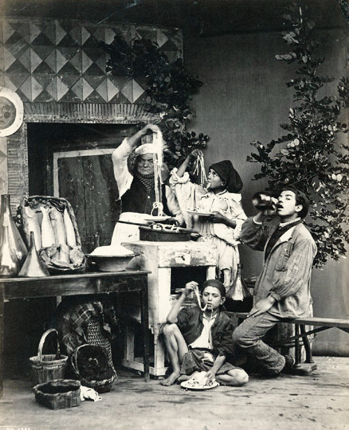 Giorgio Sommer (1834–1914): Spaghetti eaters (Naples), before 1886. Photograph, albumen print, 22.8 x 18.4 cm. Numbered 6144.